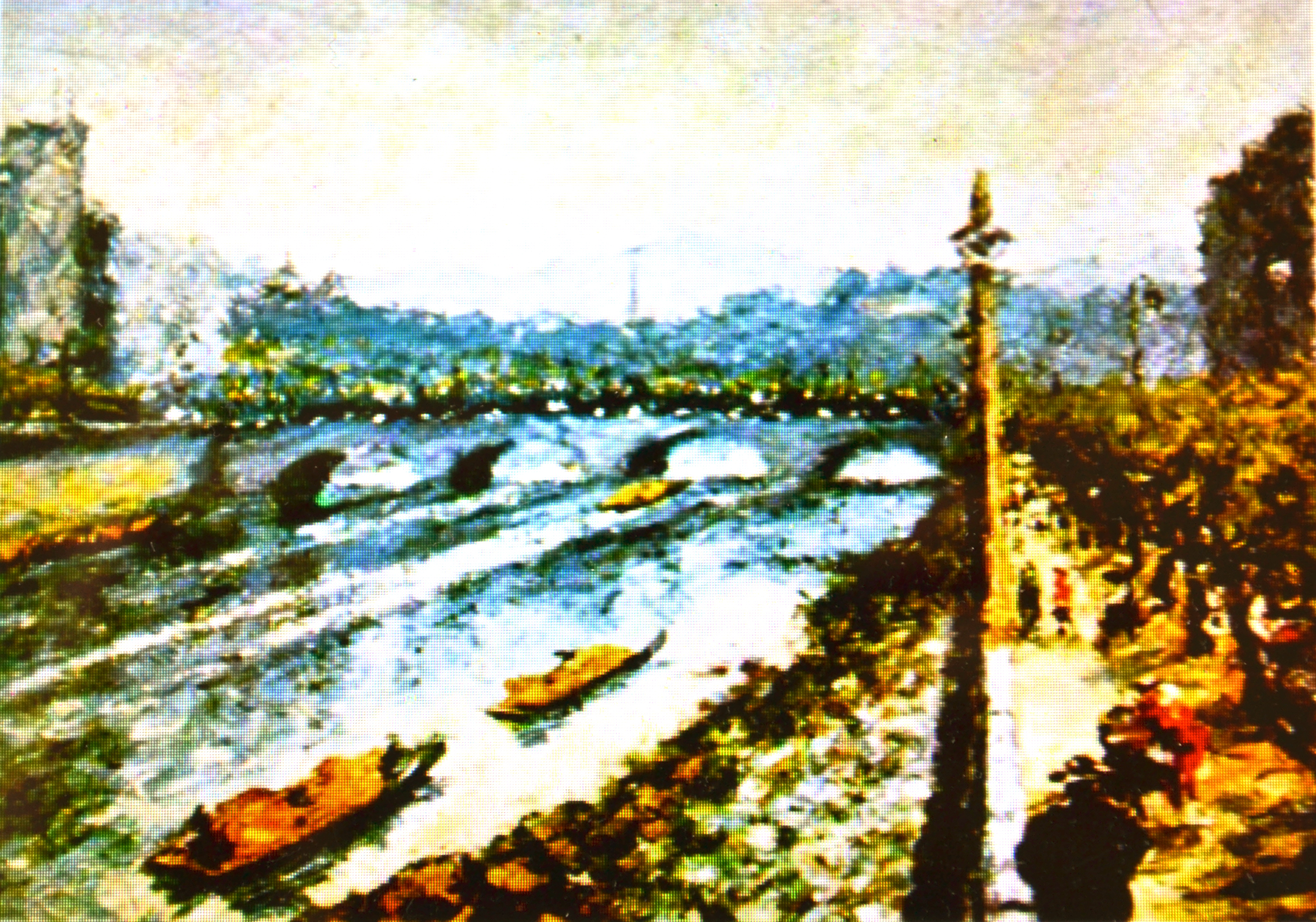 Paint